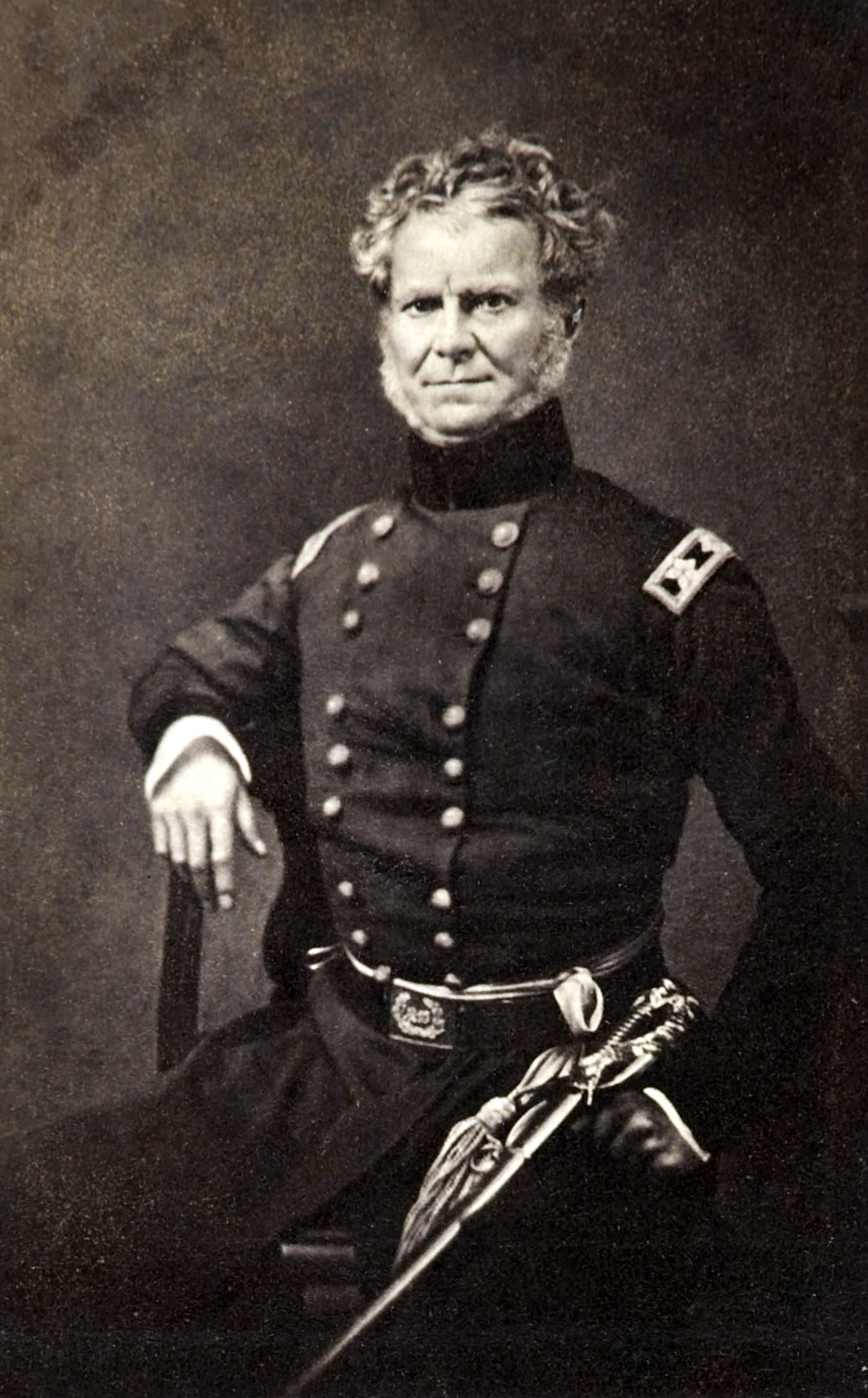 Worth in uniform with sword